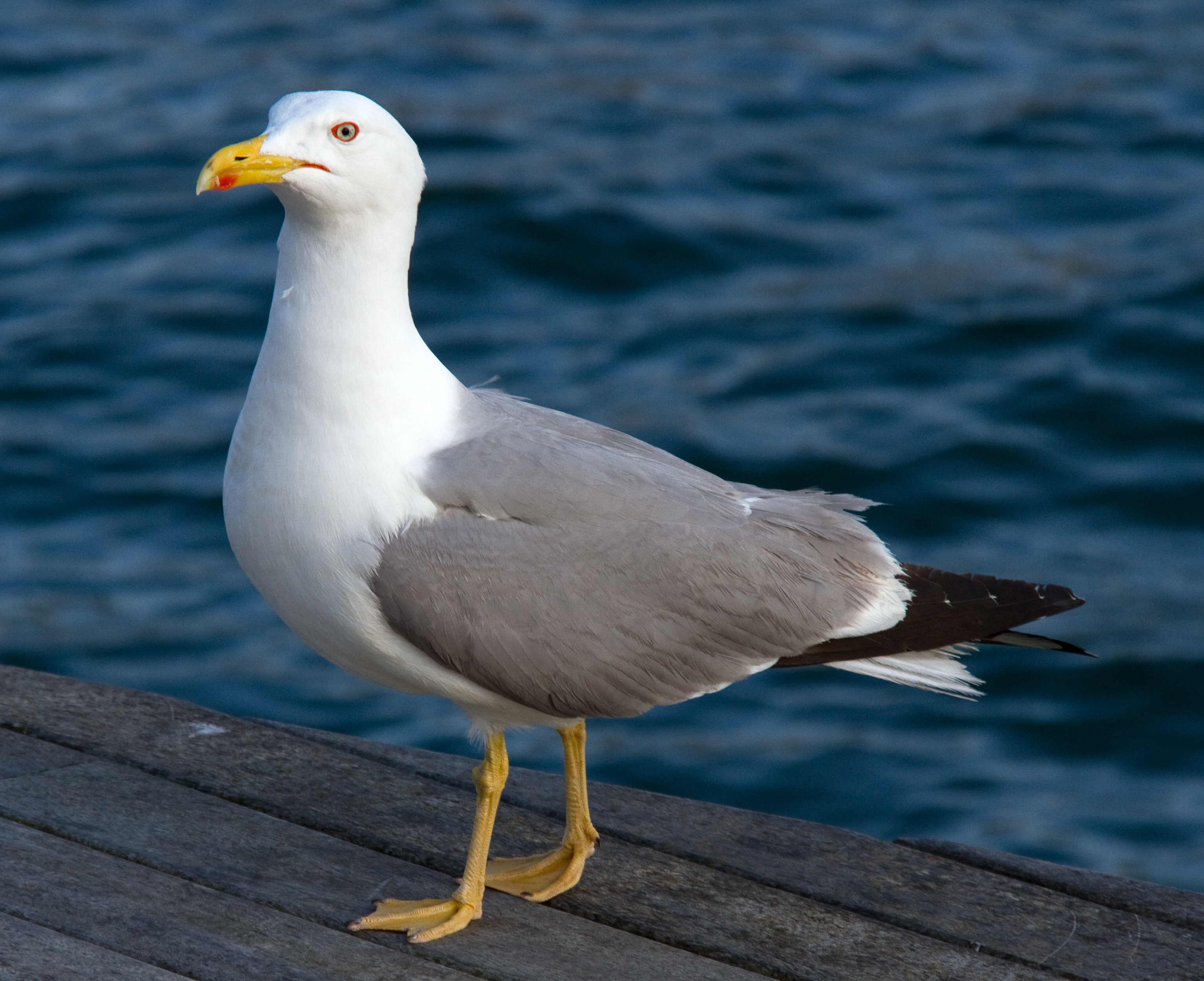 Lesser Black-backed Gull